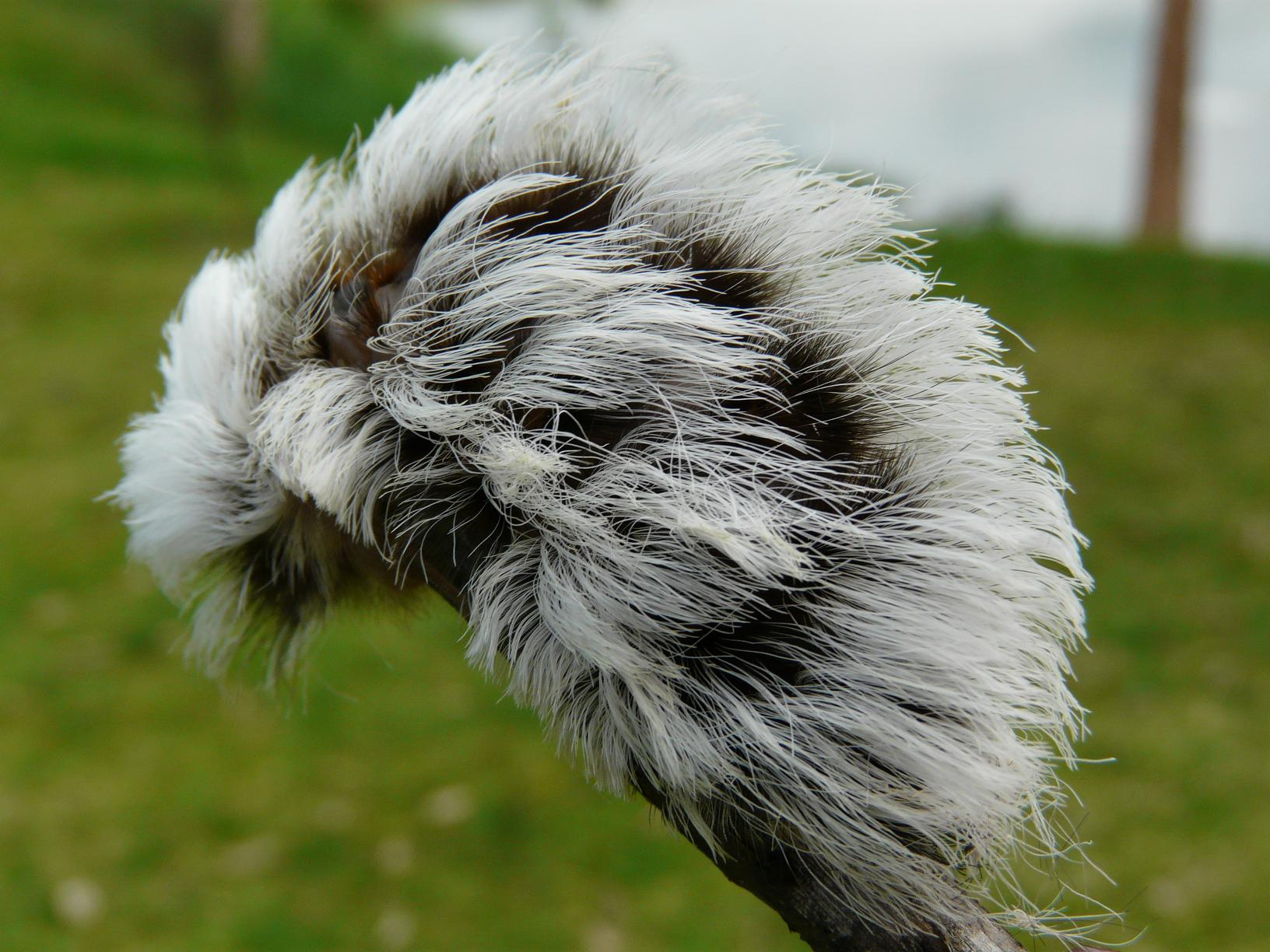 From Wikipedia: The 'fur' of the larva contains venomous spines that cause extremely painful reactions in human skin upon contact. The reactions are sometimes localized to the affected area but are often very severe, radiating up a limb and causing burning, swelling, nausea, headache, abdominal distress, rashes, blisters, and sometimes chest pain, numbness, or difficulty breathing (Eagleman 2008). Additionally, it is not unusual to find sweating from the welts or hives at the site of the sting.